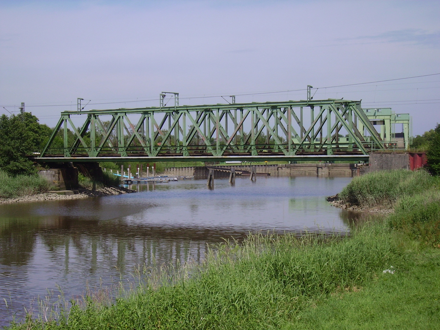 Railway bridge in Bremerhaven crossing the River Geeste